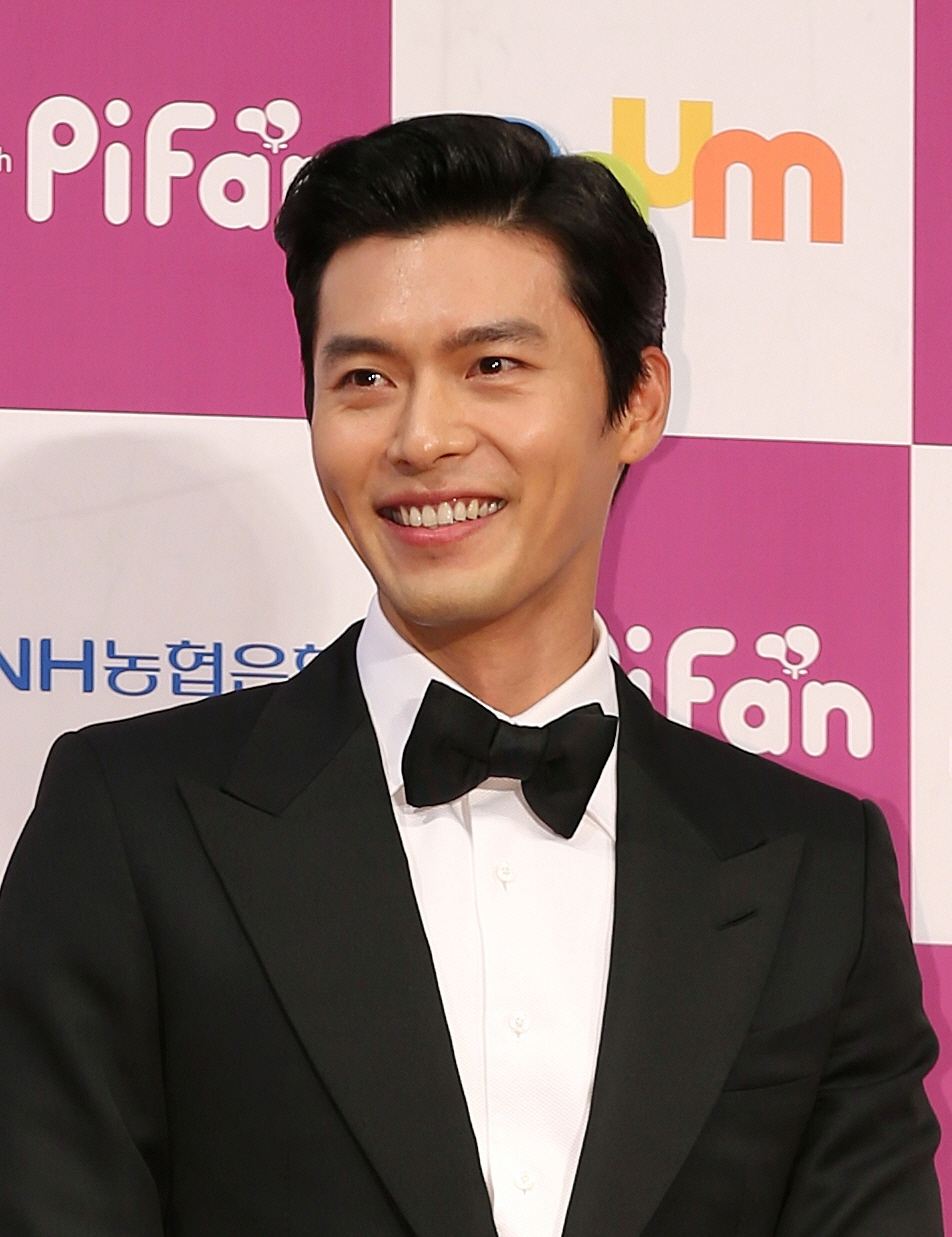 Actor Hyun Bin arrives at the red carpet event of the Pifan in Bucheon on July 17, 2014